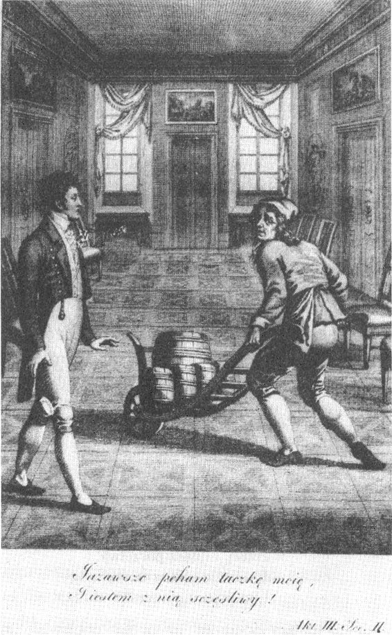 Michał Stachowicz, picture for "La Brouette du vinaigrier" by Louis-Sébastien Mercier. First published in W. Bogusławski, "Dzieła dramatyczne", T. 8, Warszawa 1823.